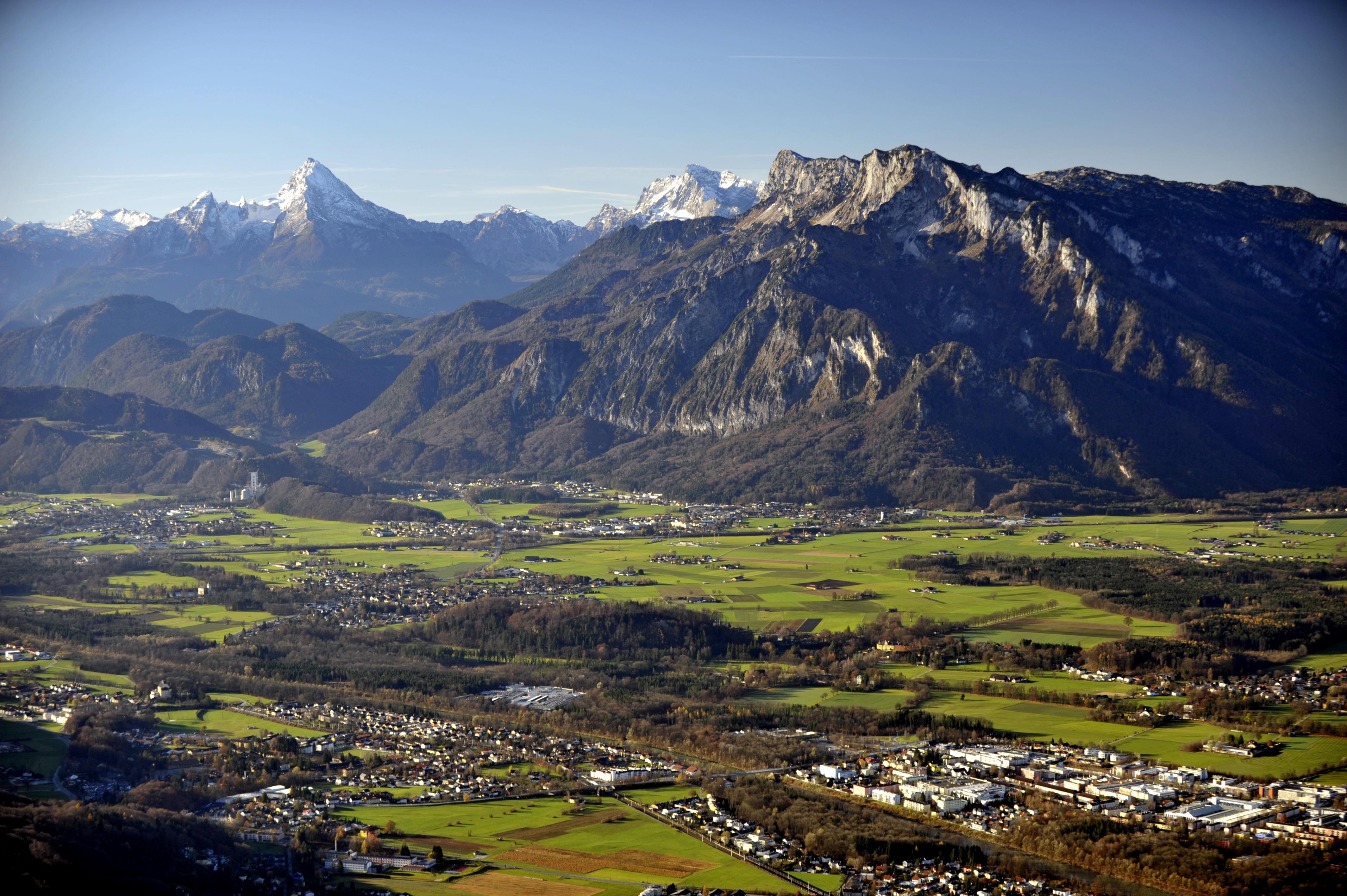 Untersberg seen from Gaisberg above Salzburg Süd, Anif, Grödig, Elsbethen and Glasenbach. The prominent double peak in the left background is the Watzmann massif.